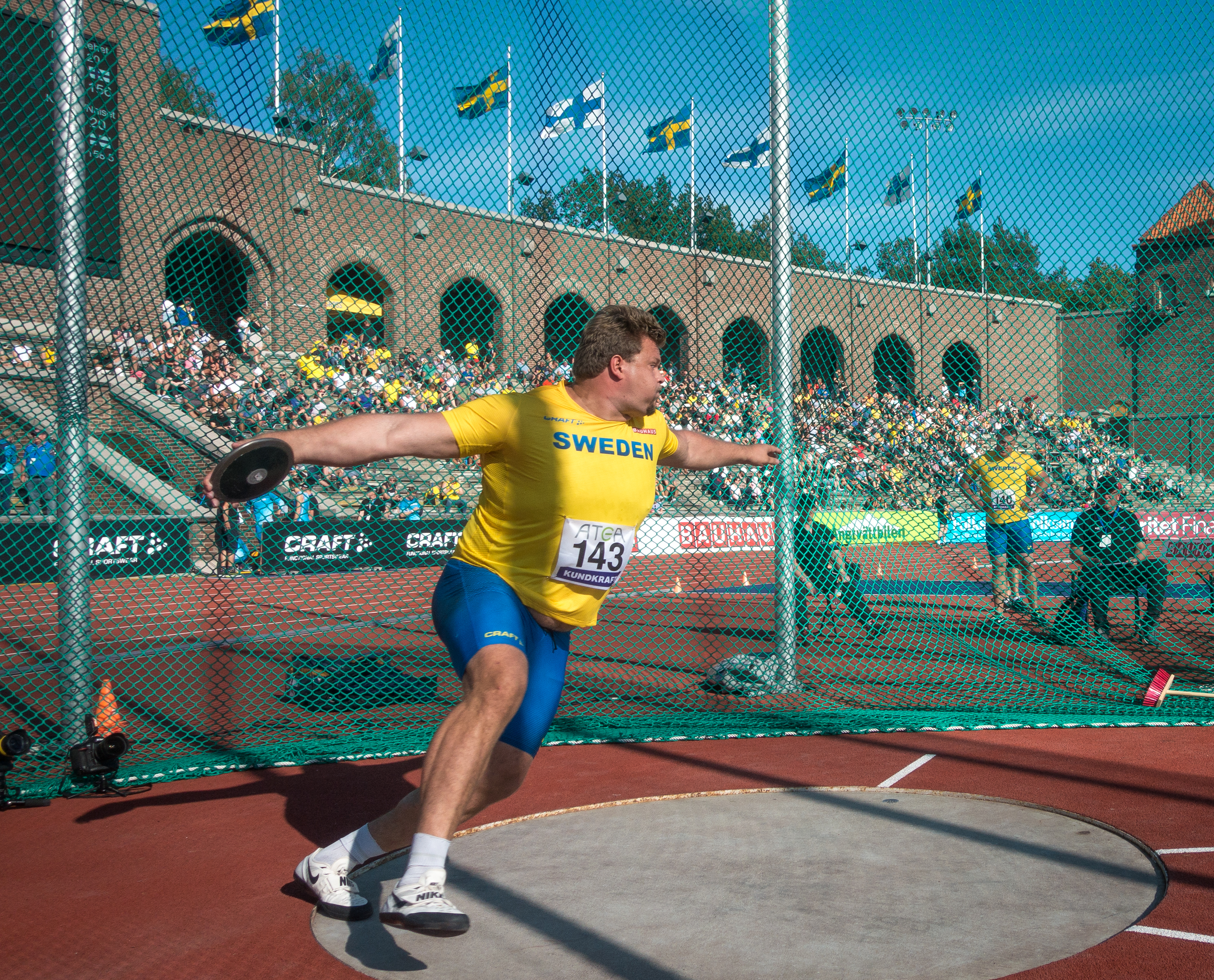 Daniel Ståhl during the Finland-Sweden athletics international 2019 at the Stockholm Stadium in August 2019. Ståhl wins the discus competition with 69.42.